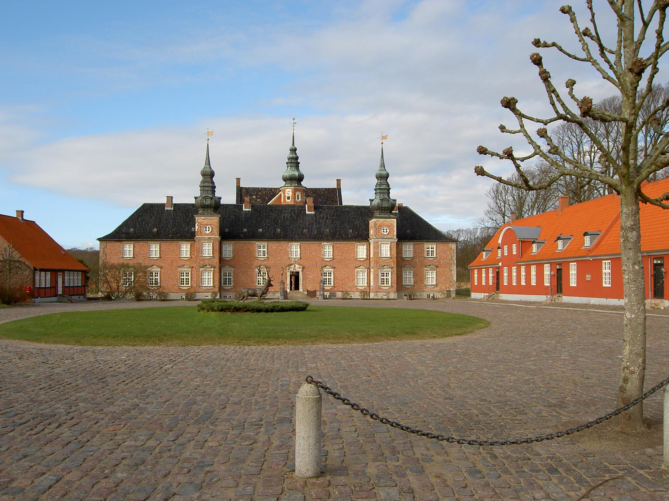 The castle at Jægerspris